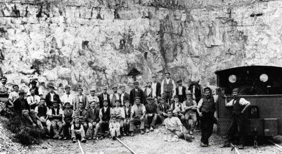 Quarry at Crich - workpeople and loco 0-4-0 "Salibury" or "Ella" by W G Bagnall of Stafford Quarry. 3 foot 9in gauge